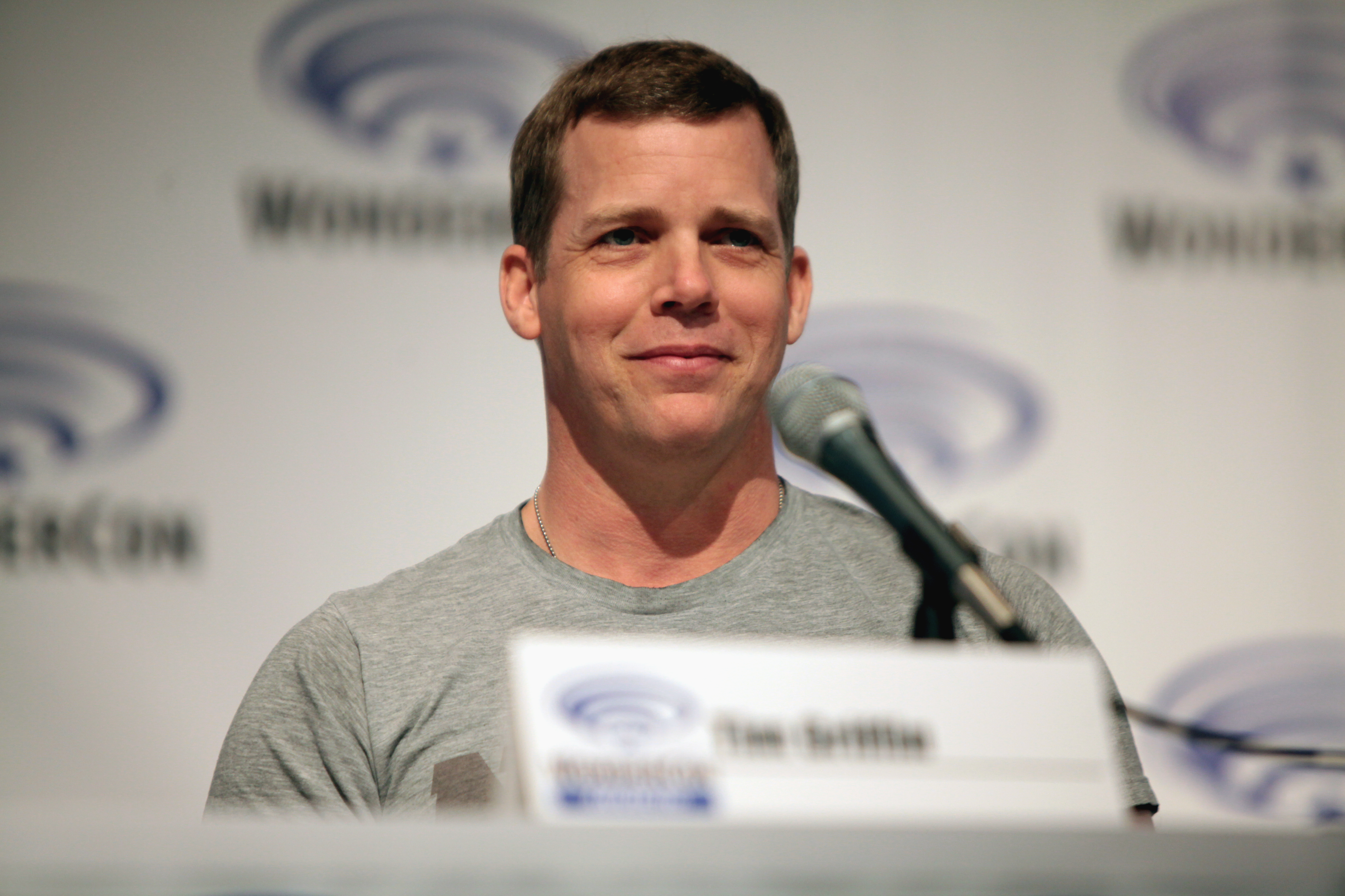 Tim Griffin speaking at the 2015 Wondercon, for "Wayward Pines", at the Anaheim Convention Center in Anaheim, California.